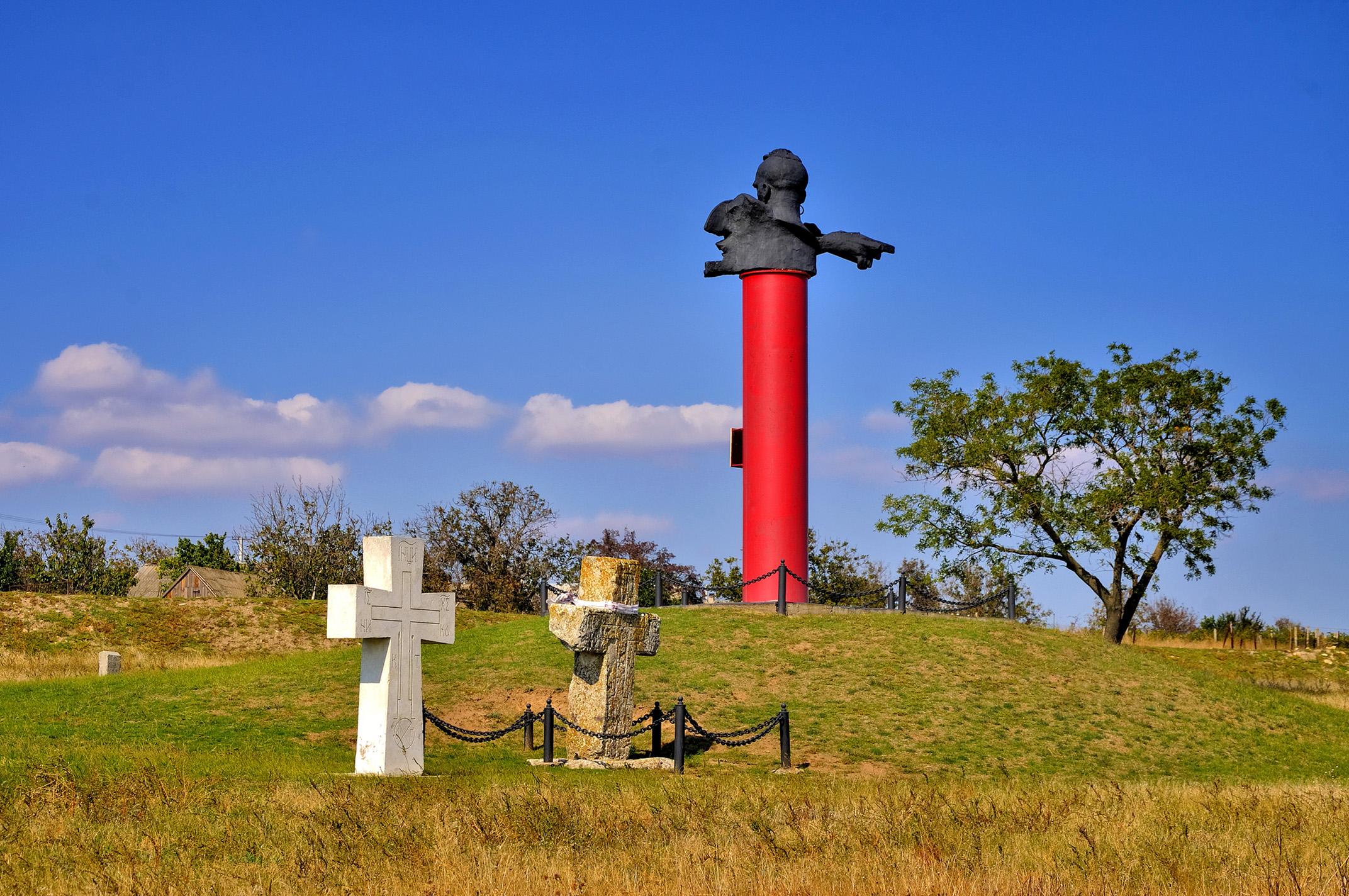 The territory of the former Kamianska Sich.